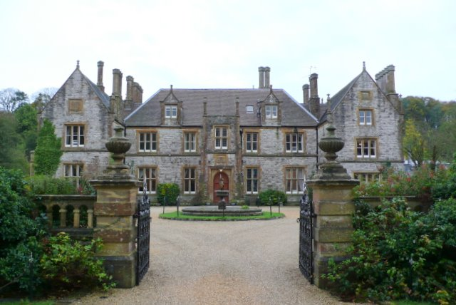 Steepleton Manor Care Home The Manor House was completed in 1870 to a design by T H Wyatt. It is now a care home.